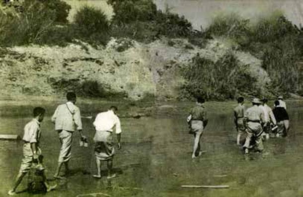 "They have gone back" (သူတို့ပြန်ကြလေပြီ): Insurgents of the Communist Party of Burma walk back to their bases after failed peace talks in Rangoon organised by General Ne Win.